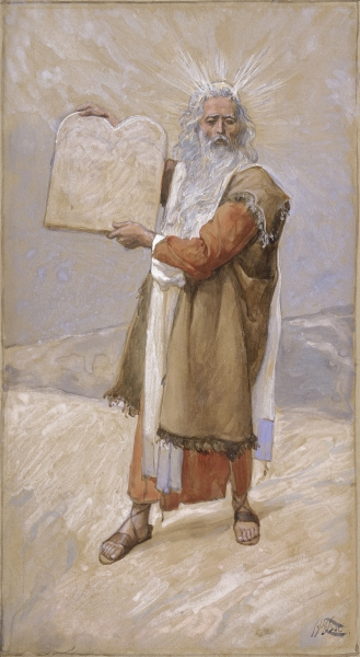 Moses and the Ten Commandments, c. 1896-1902, by James Jacques Joseph Tissot (French, 1836-1902), gouache on board, 10 11/16 x 5 5/8 in. (27.3 x 14.5 cm), at the Jewish Museum, New York